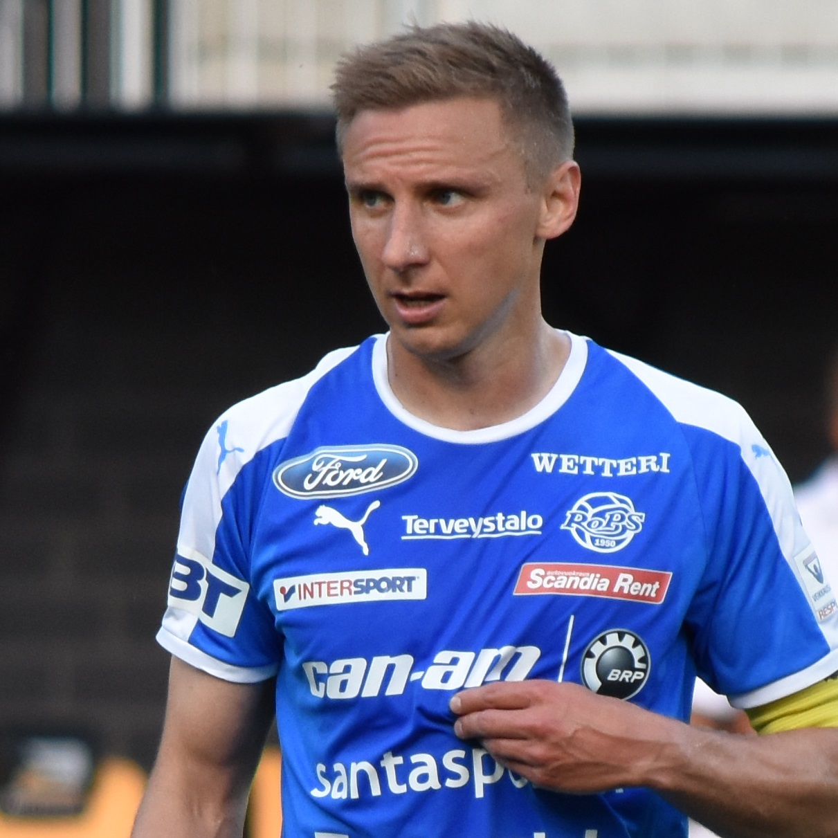 Association football player Antti Okkonen (RoPS)